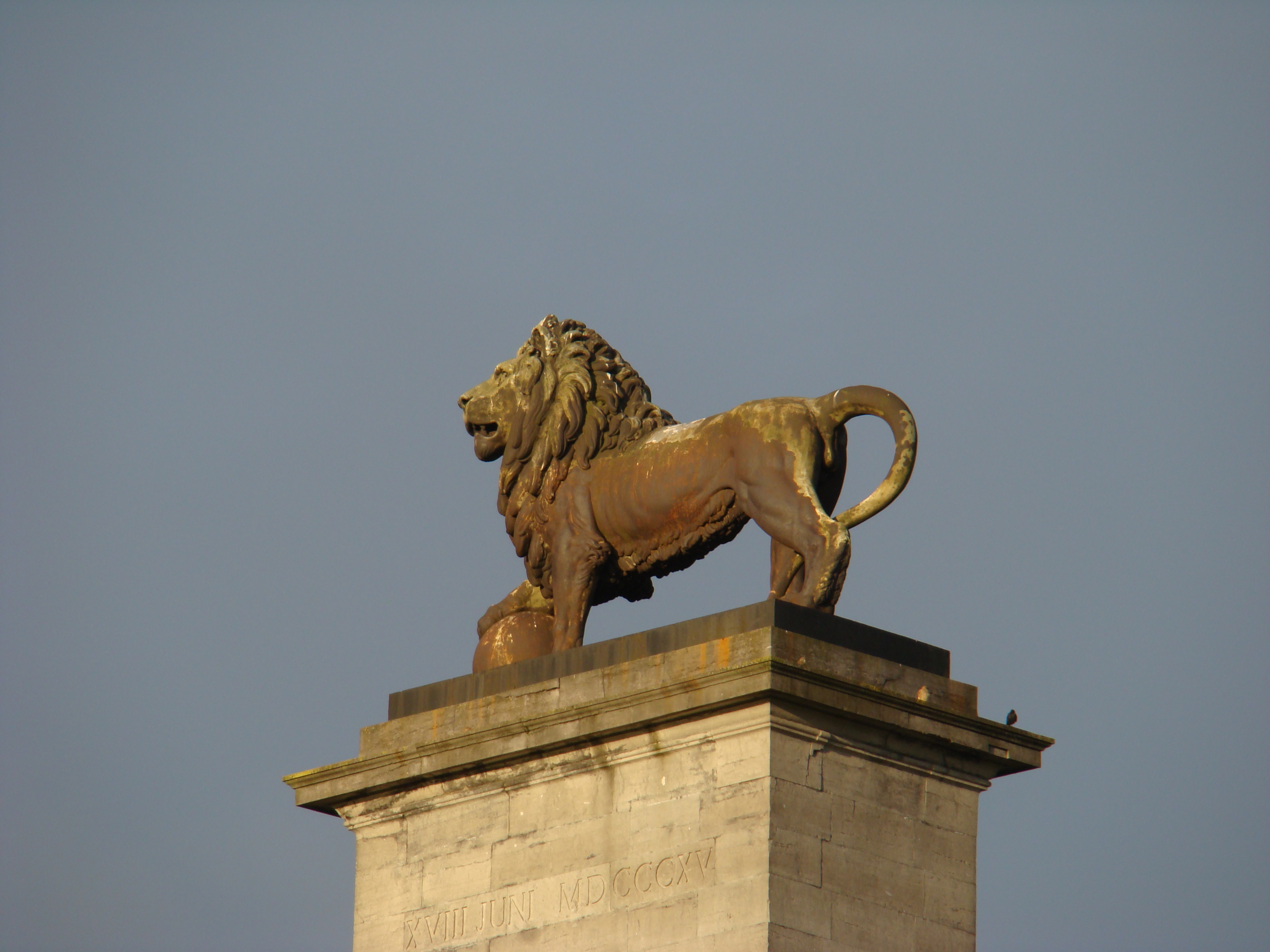 The lion of Waterloo, Waterloo (Walloon Brabant, Belgium)